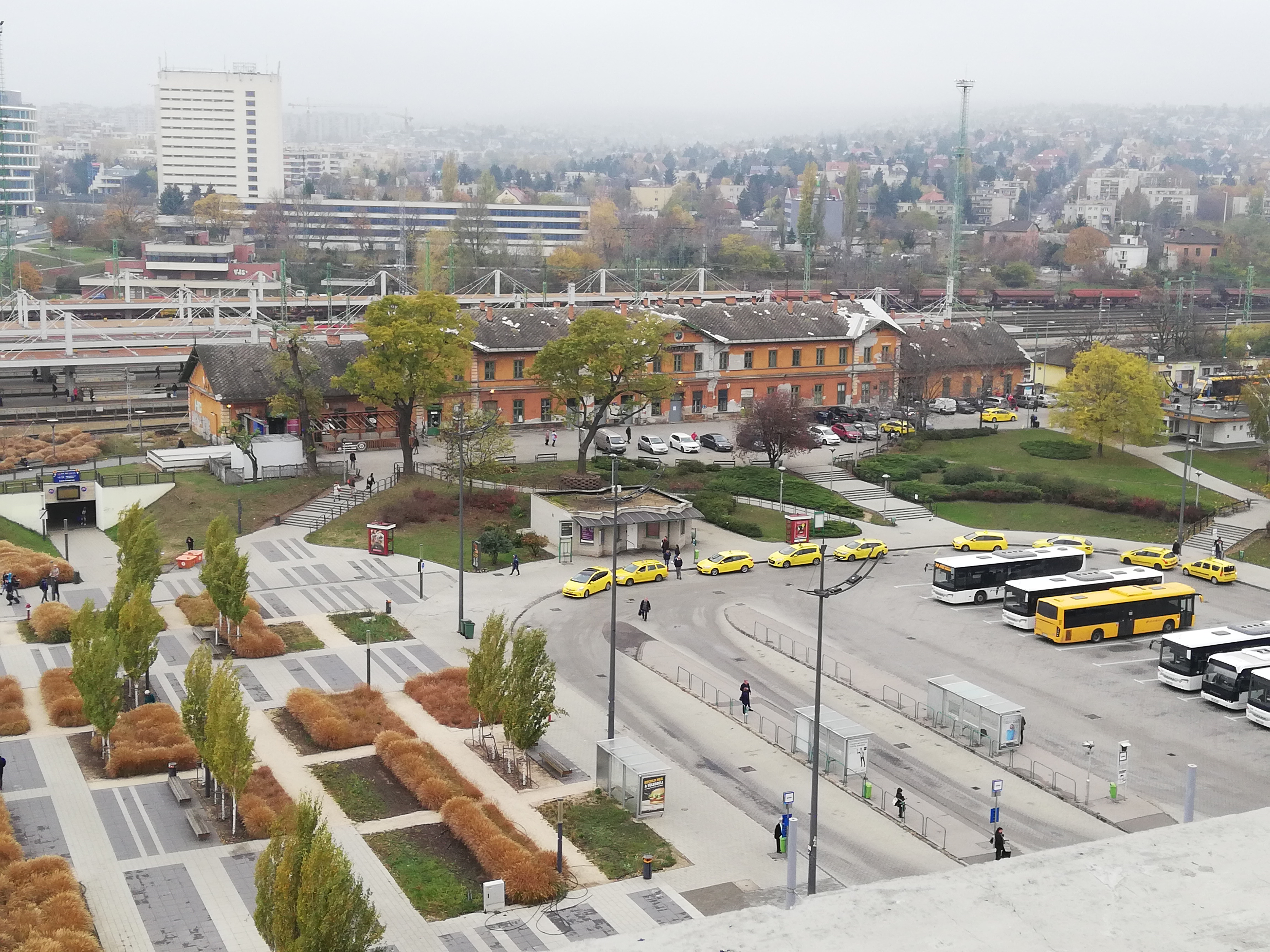 Etele square is a hub and as a representative of the XI. district (Kelenfoeld) of Budapest (Hungary).